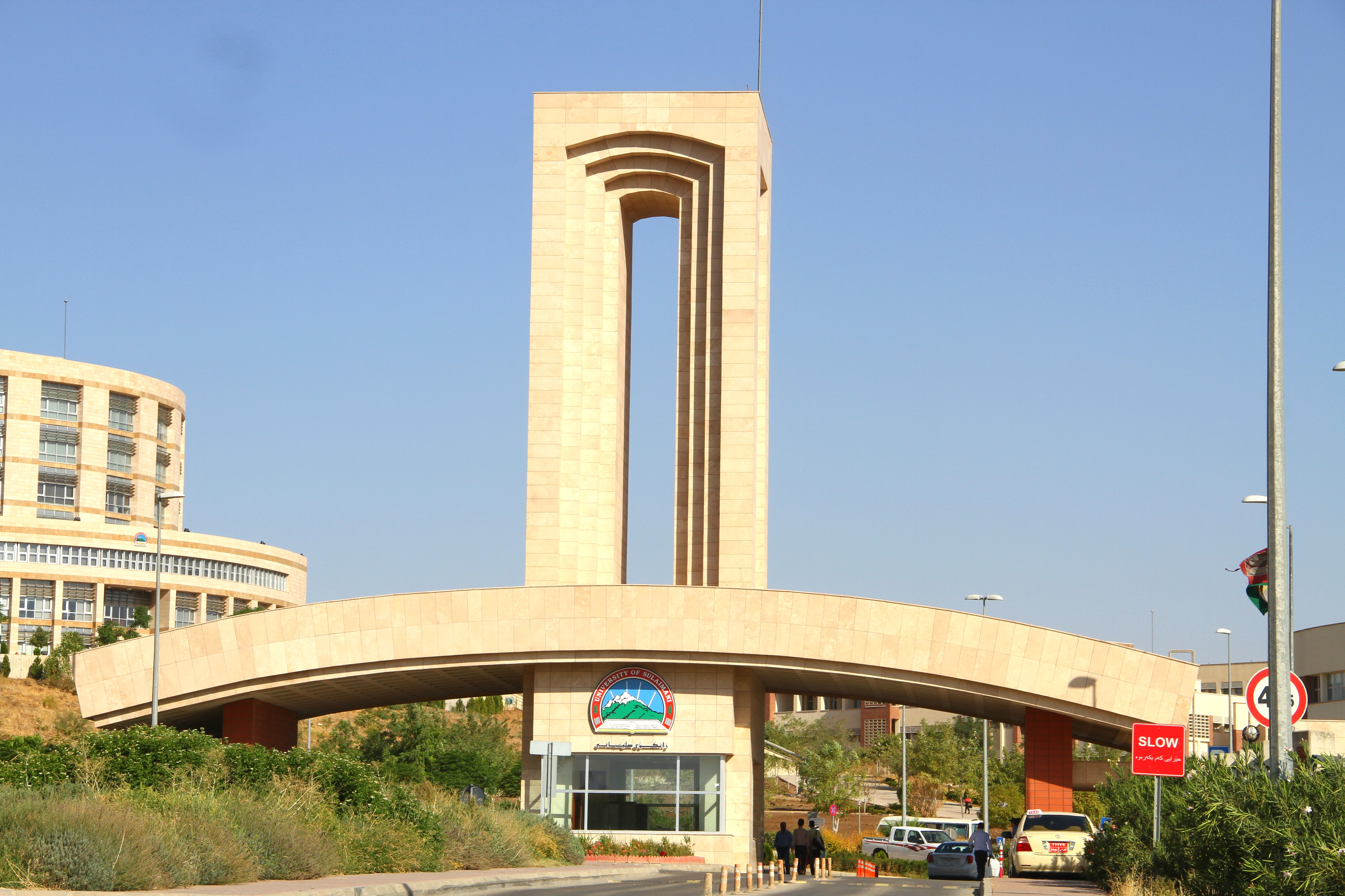 Sulaimani Univeristy Entrance